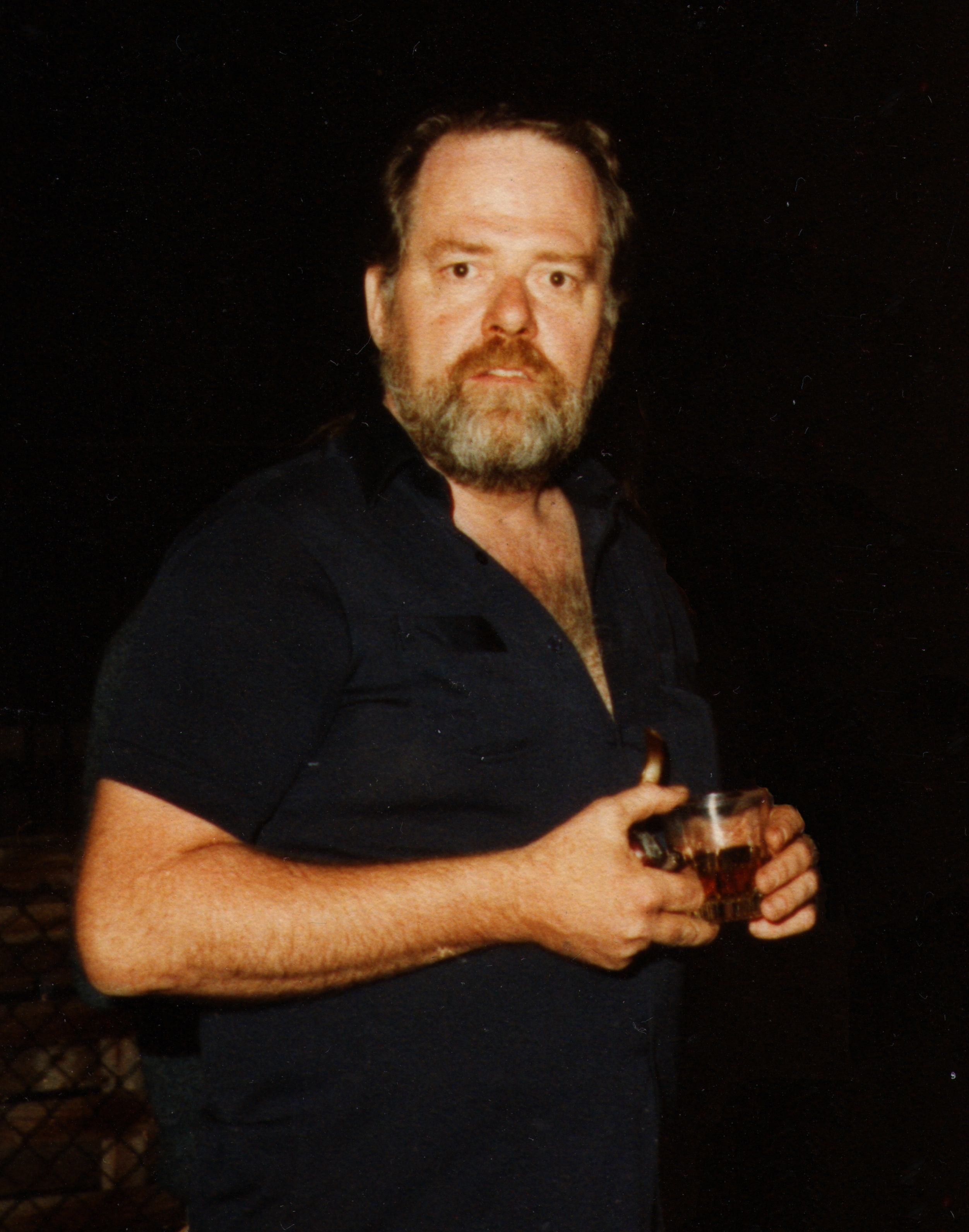 Bill Bailey. Author and Actor. Photograph taken in West London, England, around about 1984